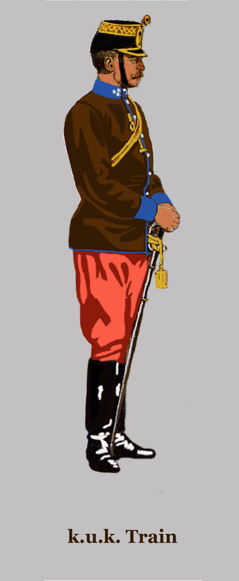 Captain of the k.u.k. Supply in Paradedress as worn until 1908